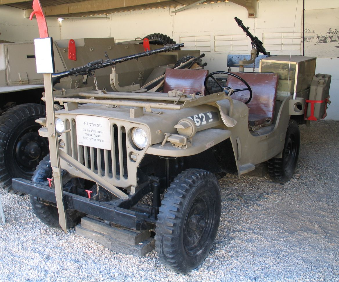 Description: Willys MB jeep (model 1942 ?) armed with MG34 machine guns in Batey ha-Osef museum, Tel Aviv, Israel. 2005. The vehicle was used by "Shualey Shimshon" unit. Source: Photo by me, User:Bukvoed.